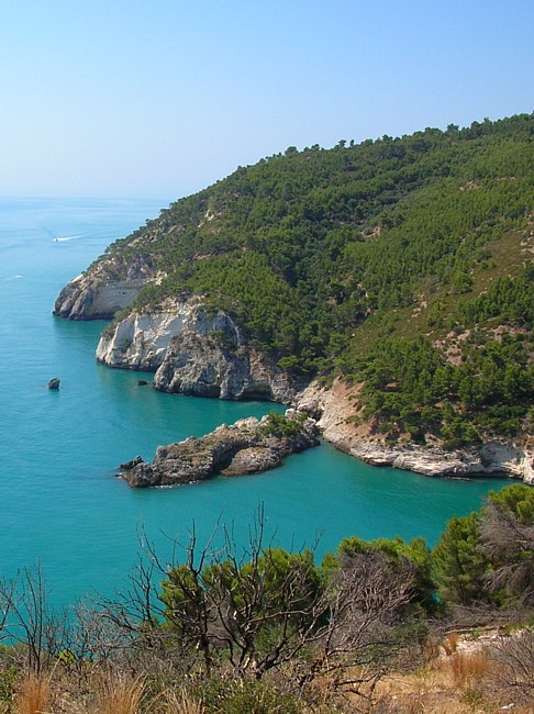 Gargano coast near Vieste picture taken by user:Idéfix, july 2005